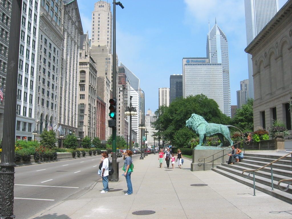 Michigan Avenue, outside the Art Institute of Chicago, Chicago, Illinois.